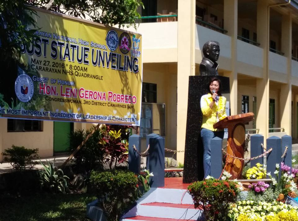 Leni Robredo at Cararayan National HS during the unveiling of Jesse Robredo monument in Cararayan, Naga City